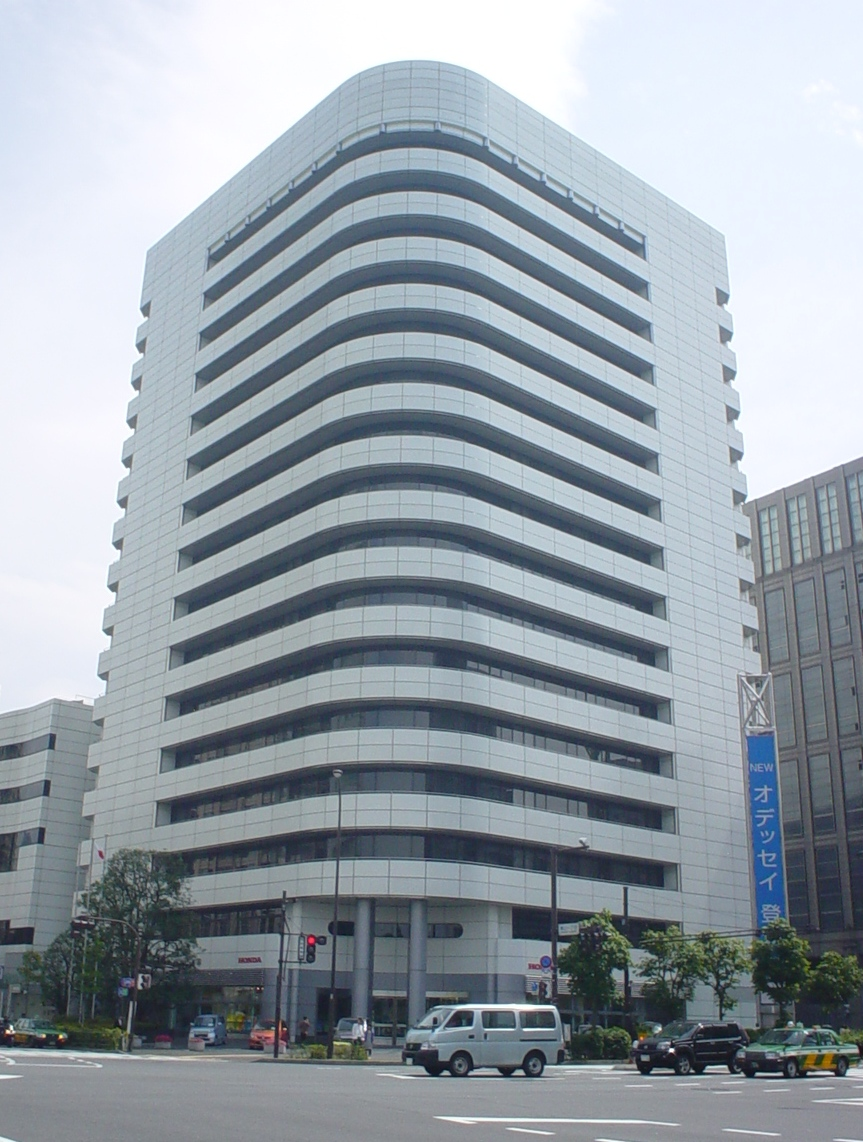 Photo by me. Photo day 17/JUN/2006